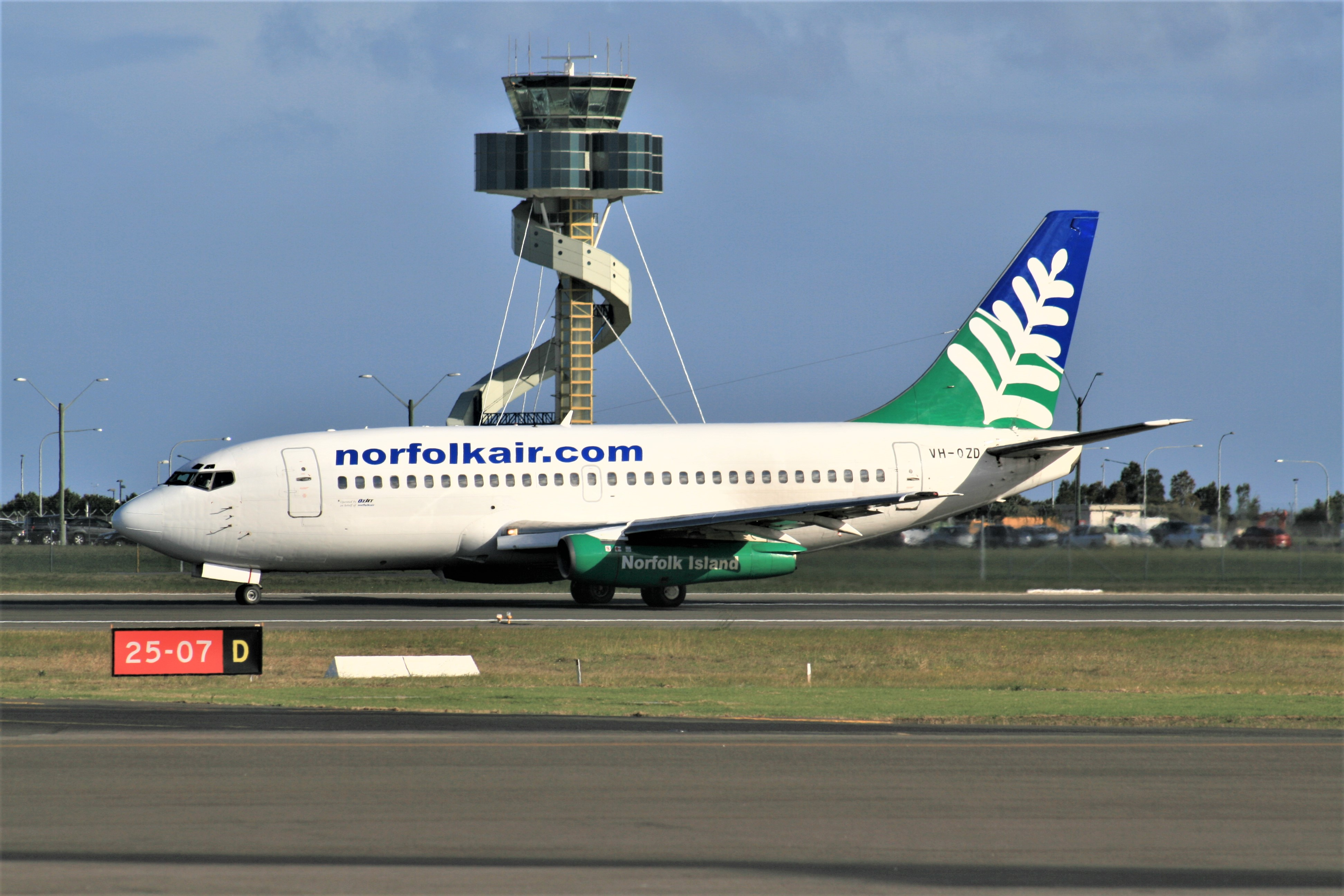 One of Ozjet's Boeing 737s, seen here landing at Sydney International Airport, is painted in Norfolk Air colours. Ozjet provides the aircraft to operate Norfolk's services. Digital photo of VH-OZD taken by YSSYguy on September 5 2007 for use in article about Ozjet.